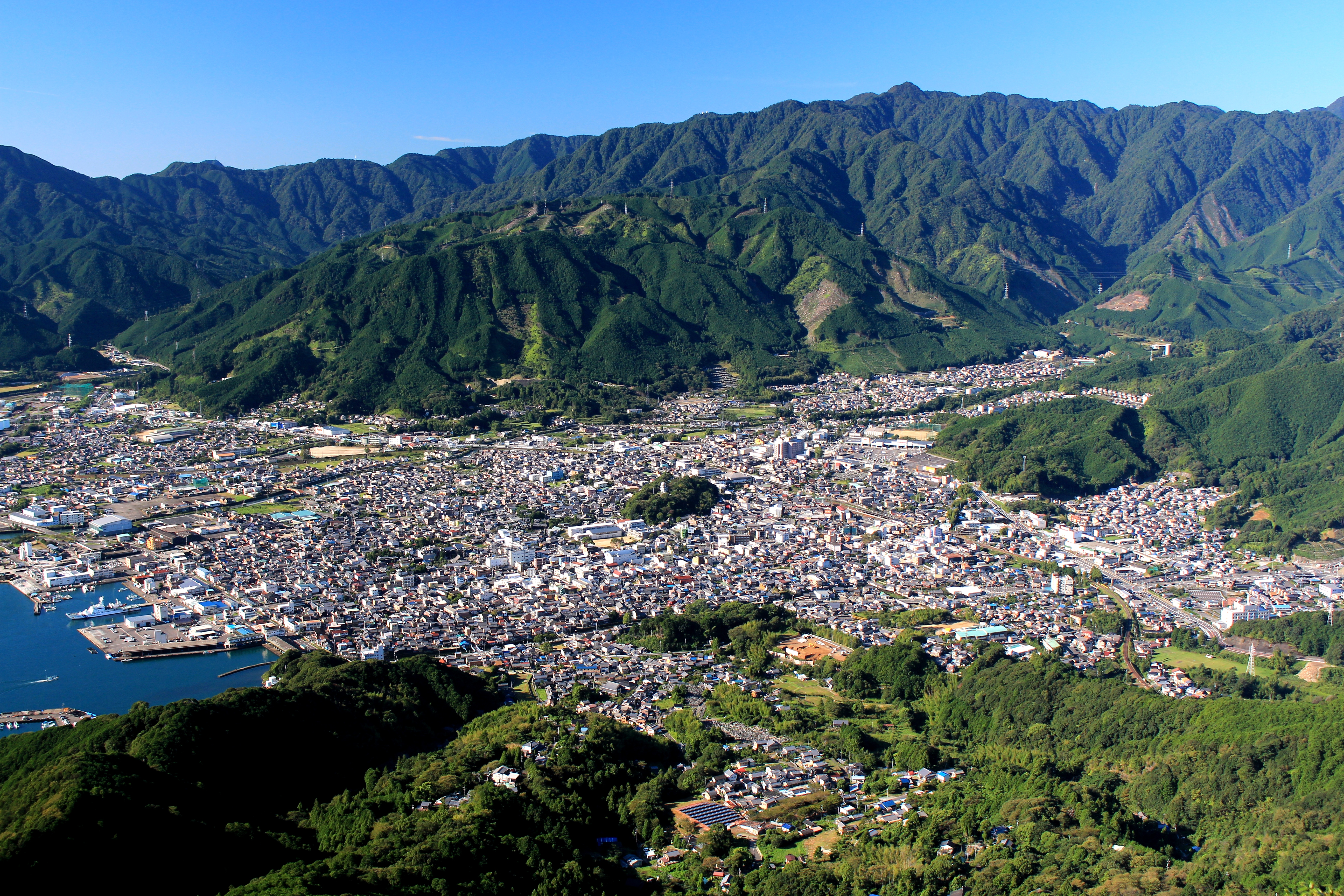 Center of Owase city and Mount Takamine seen from Mount Tengura, in Mie prefecture, Japan.